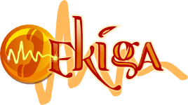 Official Ekiga logotype. Designed by Andreas Kwiatkowski for Ekiga. You can visit his website at Ekiga is to be found at